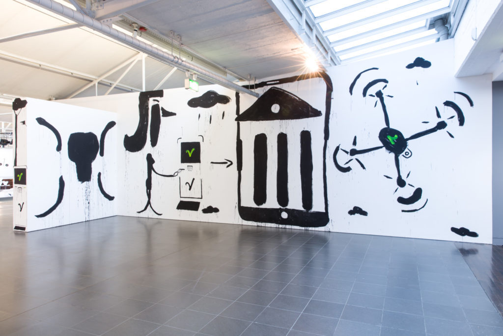 More info